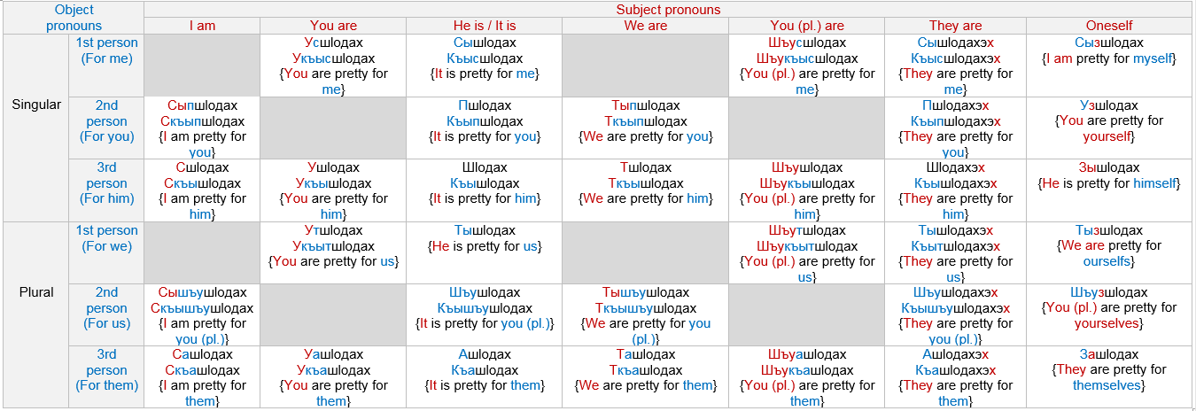 Circassian Opinion Prefix